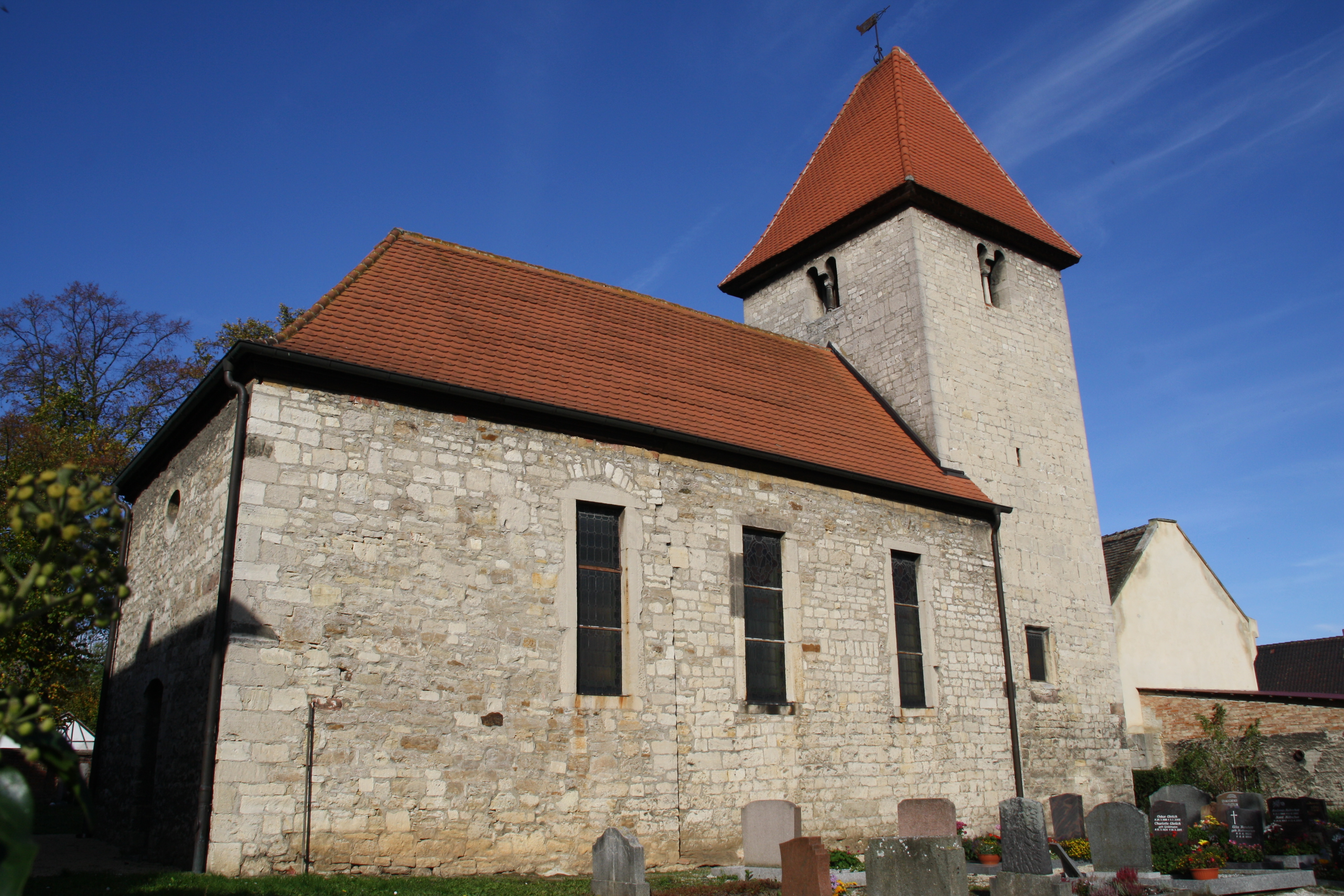 Church in Leislau